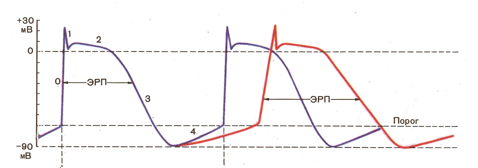 Ia class influence on an action potential of Purkine fibers